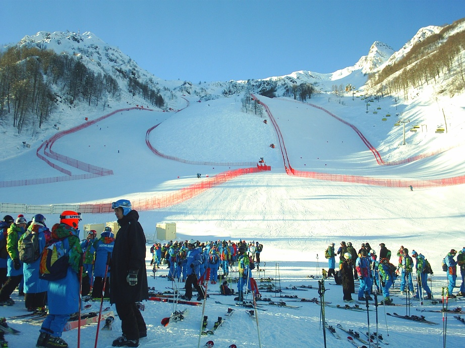 Preparation of slopes at the Rosa Khutor Alpine resort on the eve of the Olympic Games